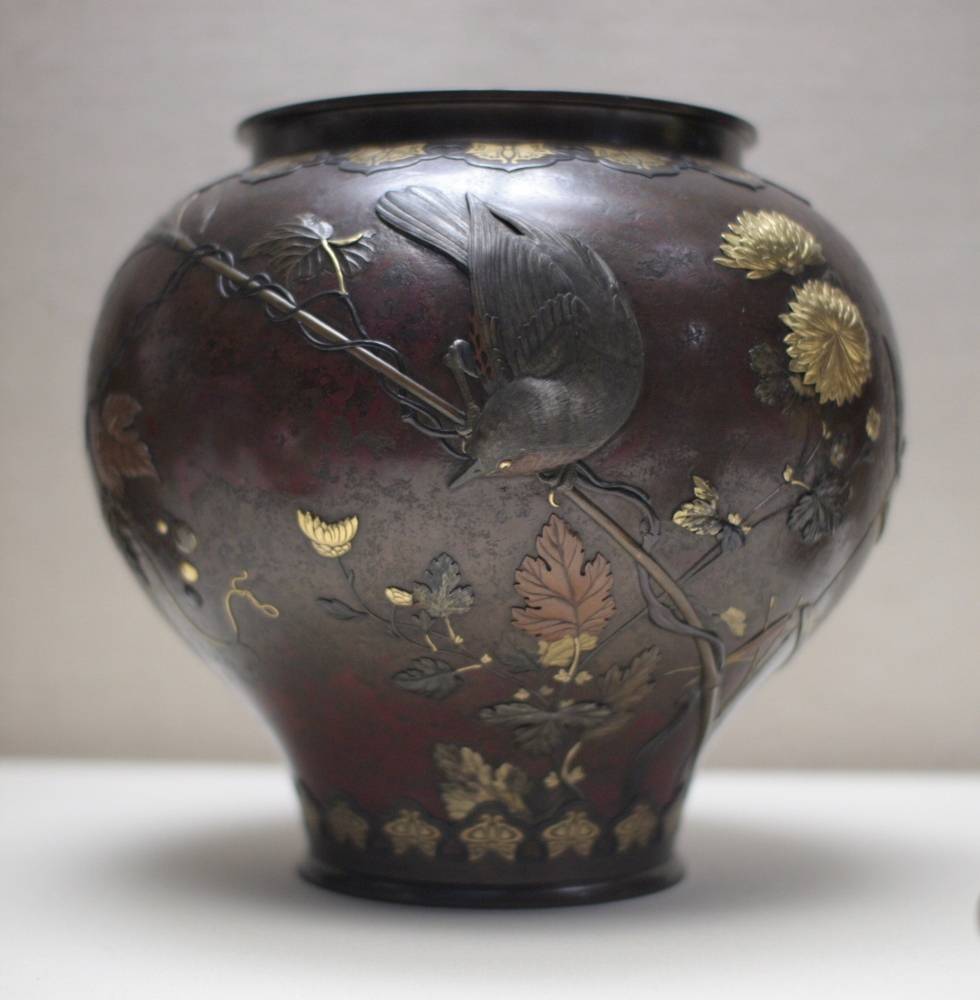 Vase Cast and patinated bronze with gold, shakudo, shibiuchi and copper Japanese Early 1880s Museum no. 30-1886 Wikipedia Loves Art at the Victoria and Albert Museum This photo of item # 30-1886 at the Victoria and Albert Museum was contributed under the team name "UK_FGR" as part of the Wikipedia Loves Art project in February 2009. Victoria and Albert Museum The original photograph on Flickr was taken by the wee pixie—please add a comment to the original Flickr page whenever a use has been made on Wikipedia or another project. Project galleries on Flickr: this institution, this team